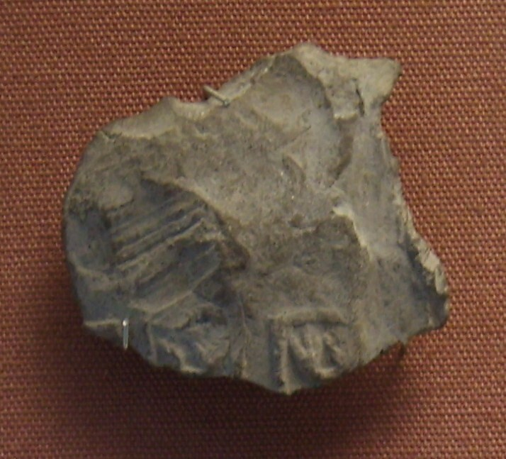 Seal impression of king Ka, found at Abydos (Egypt); British Museum